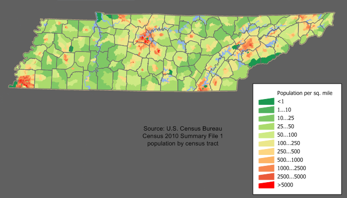 Population map of Tennessee, updated with 2010 census data.